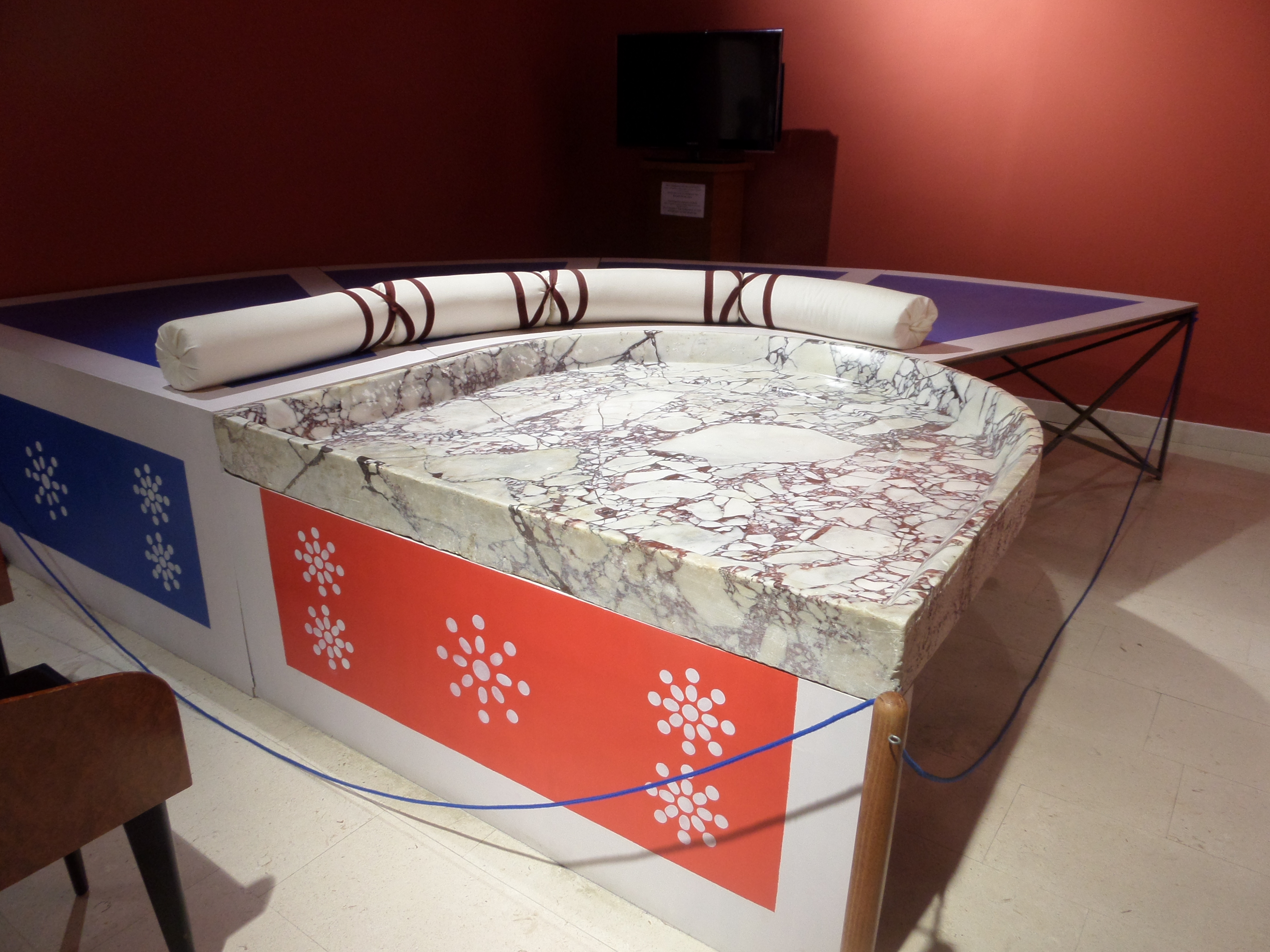 A highlight of the City Museum: a semicircular marble table (called a “mensa”) used by the Romans. It may have come from Nicomedia, on the coast of Turkey, where Diocletian once centered his administration. The table's excellent condition attests that it was used by the royal court.